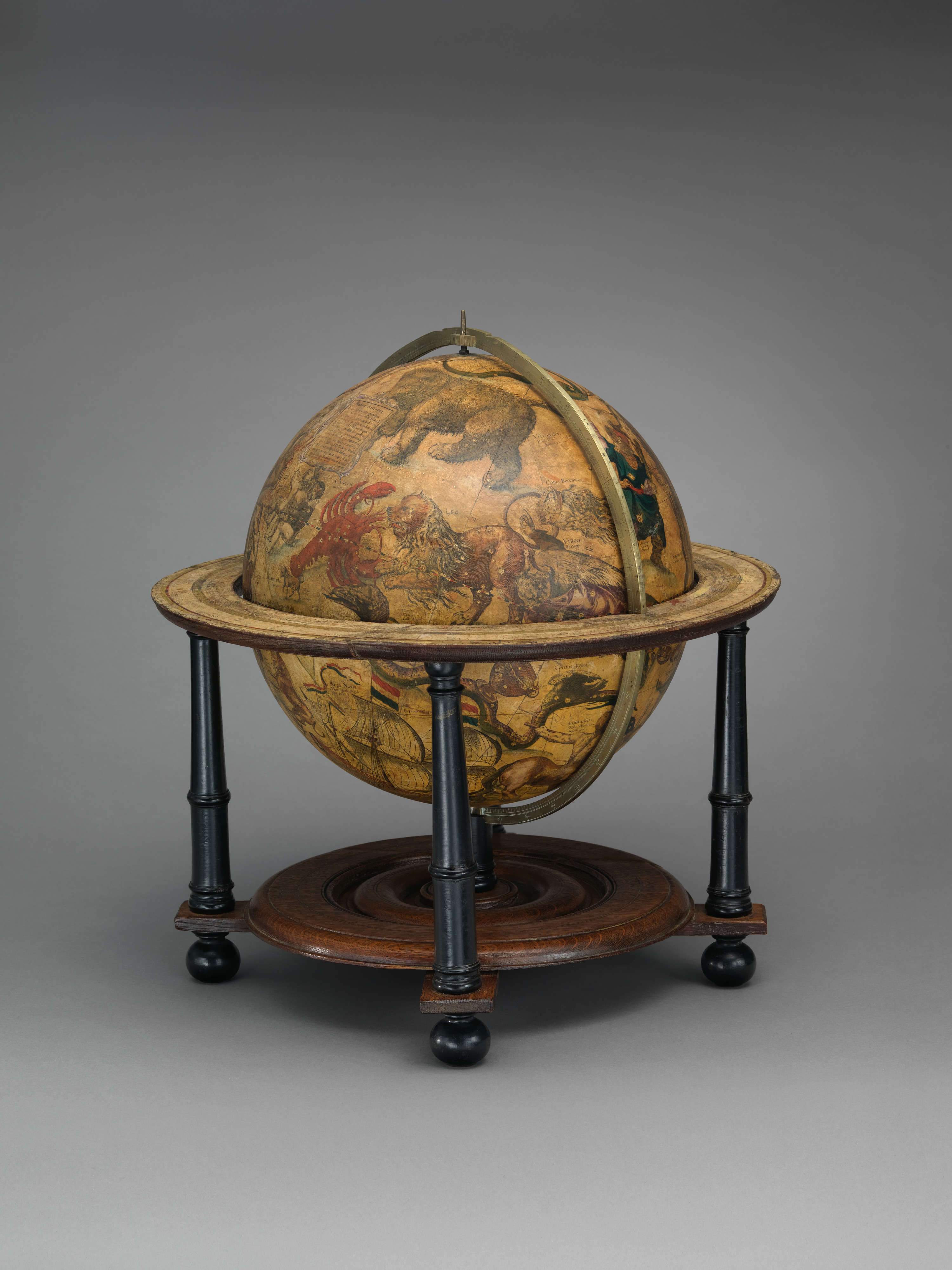 Dutch, Amsterdam; Celestial globe; Woodwork-Furniture